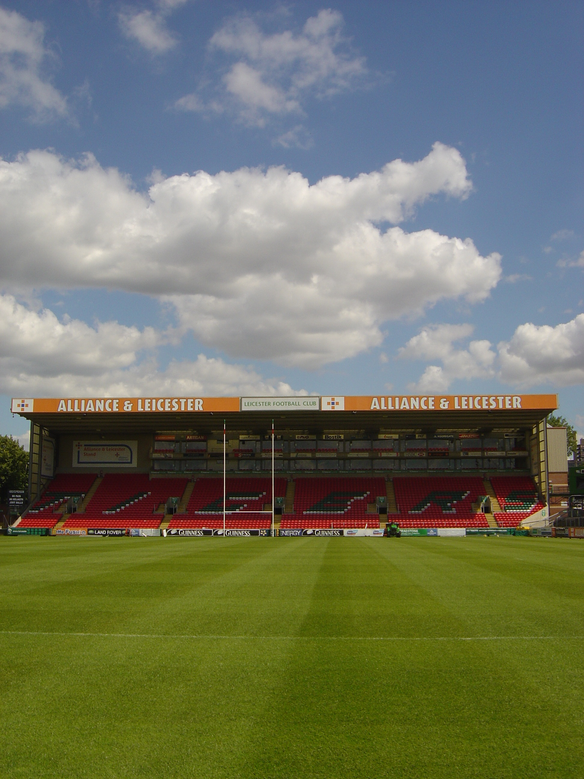 Welford Road Stadium, Leicester (England). Ground and Alliance & Leicester stand, taken from opposite side of the ground.